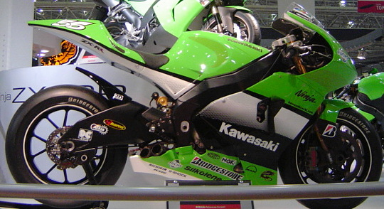 The side view of Kawasaki ZX-RR (2005 Tokyo Motor Show)